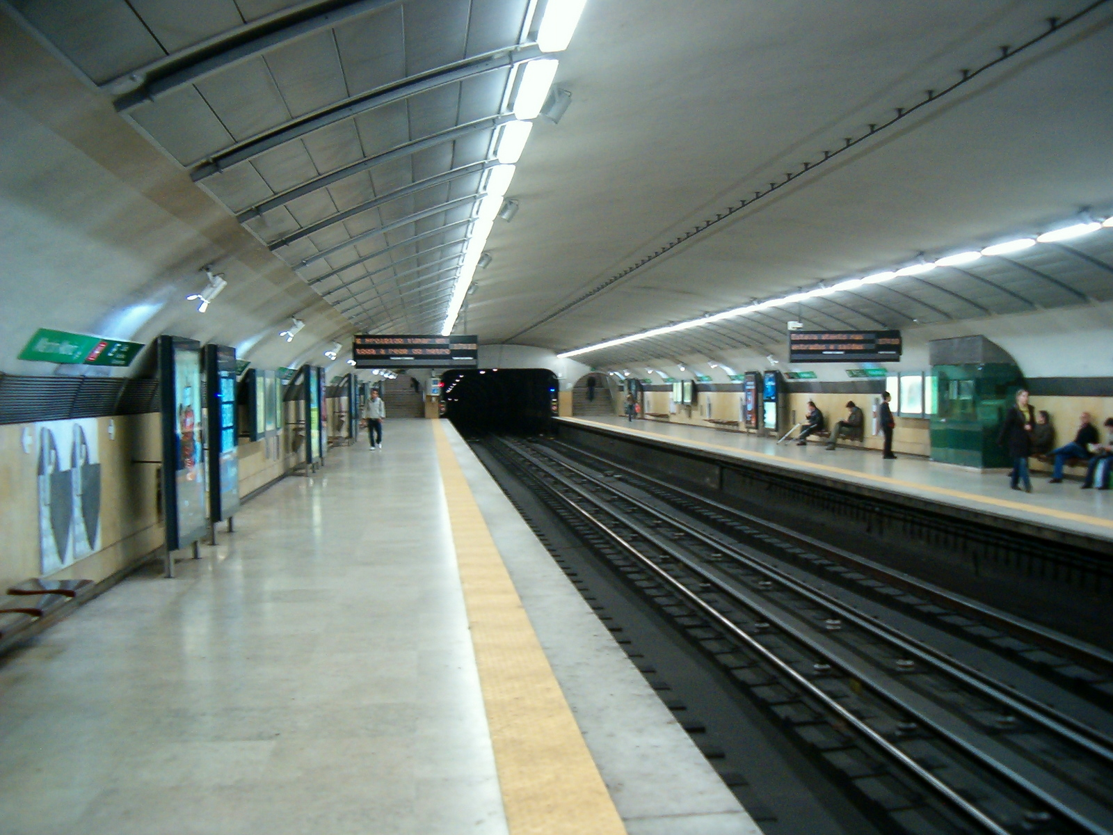 Metro station Martim Moniz (Lisboa)